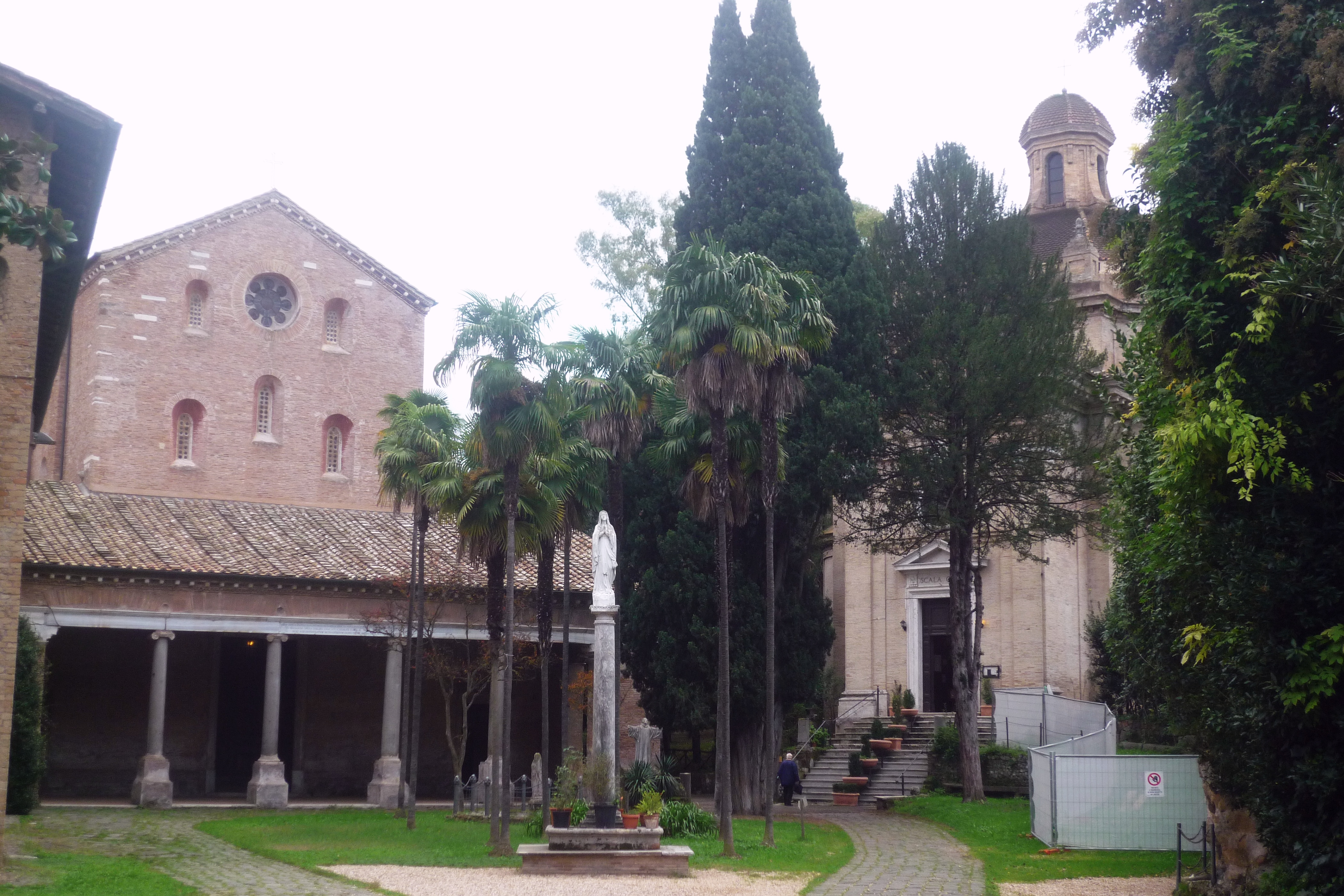 The "Tre Fontane" Abbey, Rome - Italy